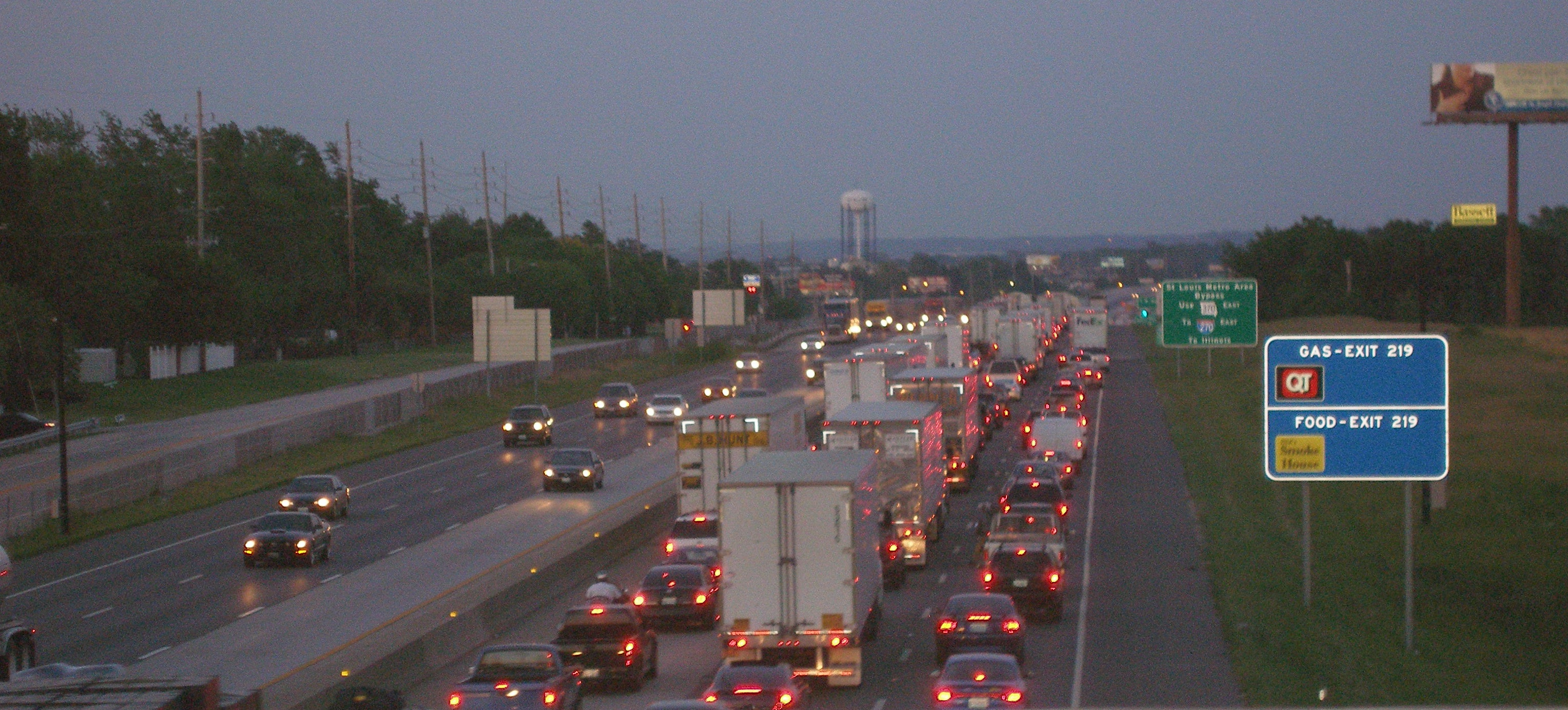 Interstate 70 eastbound along the city limits of O'Fallon and St. Peters approaching exit 219.